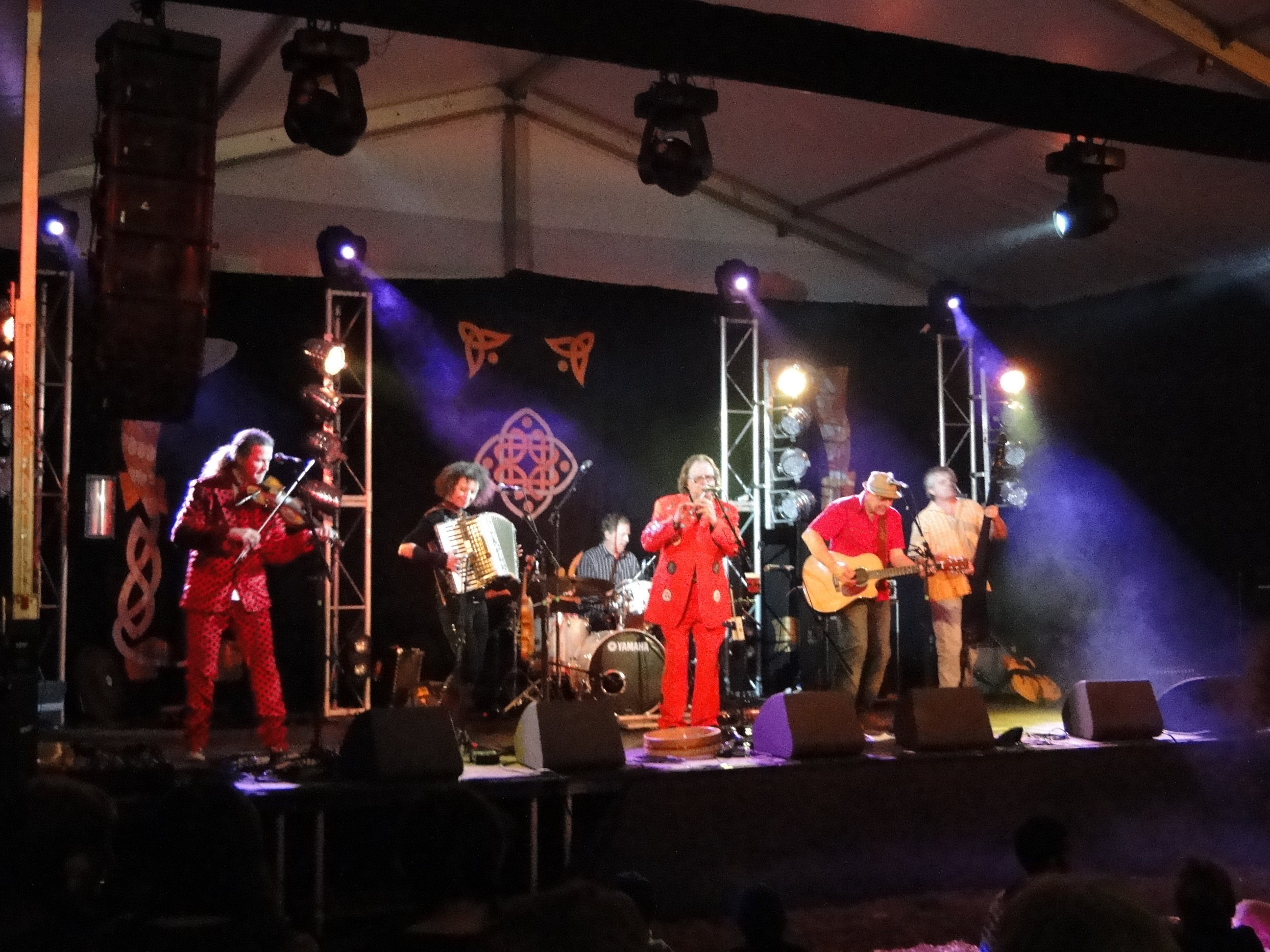 Australian folk rock band, the Bushwackers, performing at the 2010 National Celtic Festival, Portarlington, Victoria, Australia.